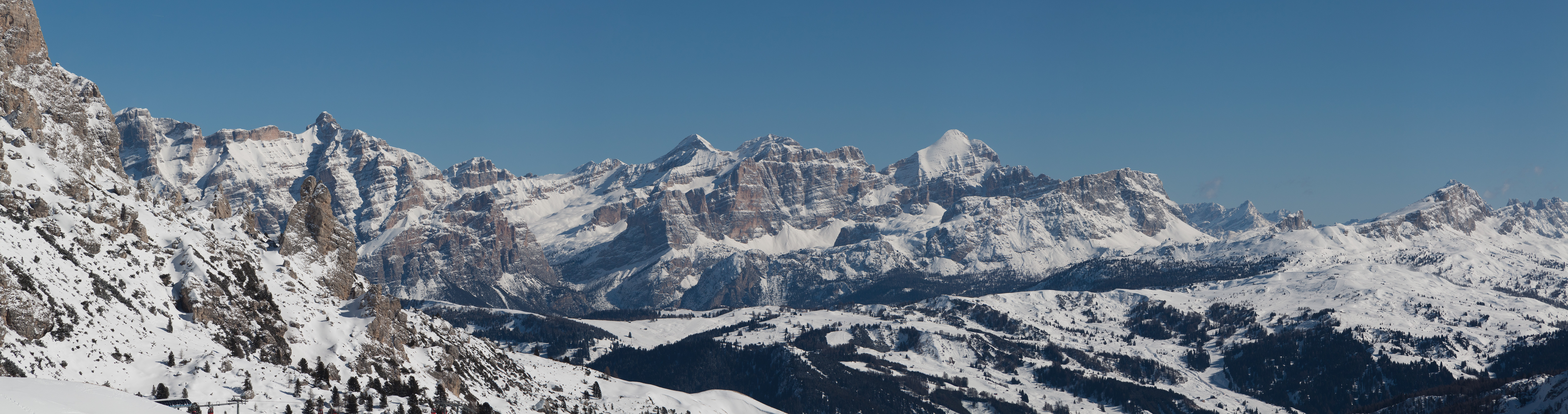 Tofane